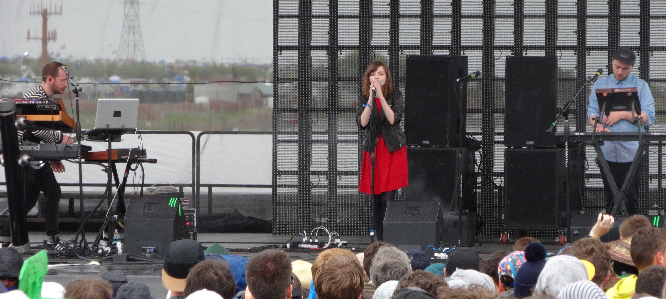 Chvrches live at Sasquatch 2013. From left to right: Iain Cook, Lauren Mayberry, Martin Doherty.